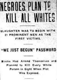 Inflammatory newspaper headline in Elaine Race Riot of 1919. Headline and subtitles read:" Negroes plan to kill all whites Slaughter was to begin with 21 prominent men as first victims. "We just begun" password Blacks Had Armed Themselves and Planned to Kill Every White Person in Sight When Plot Was Exposed. "